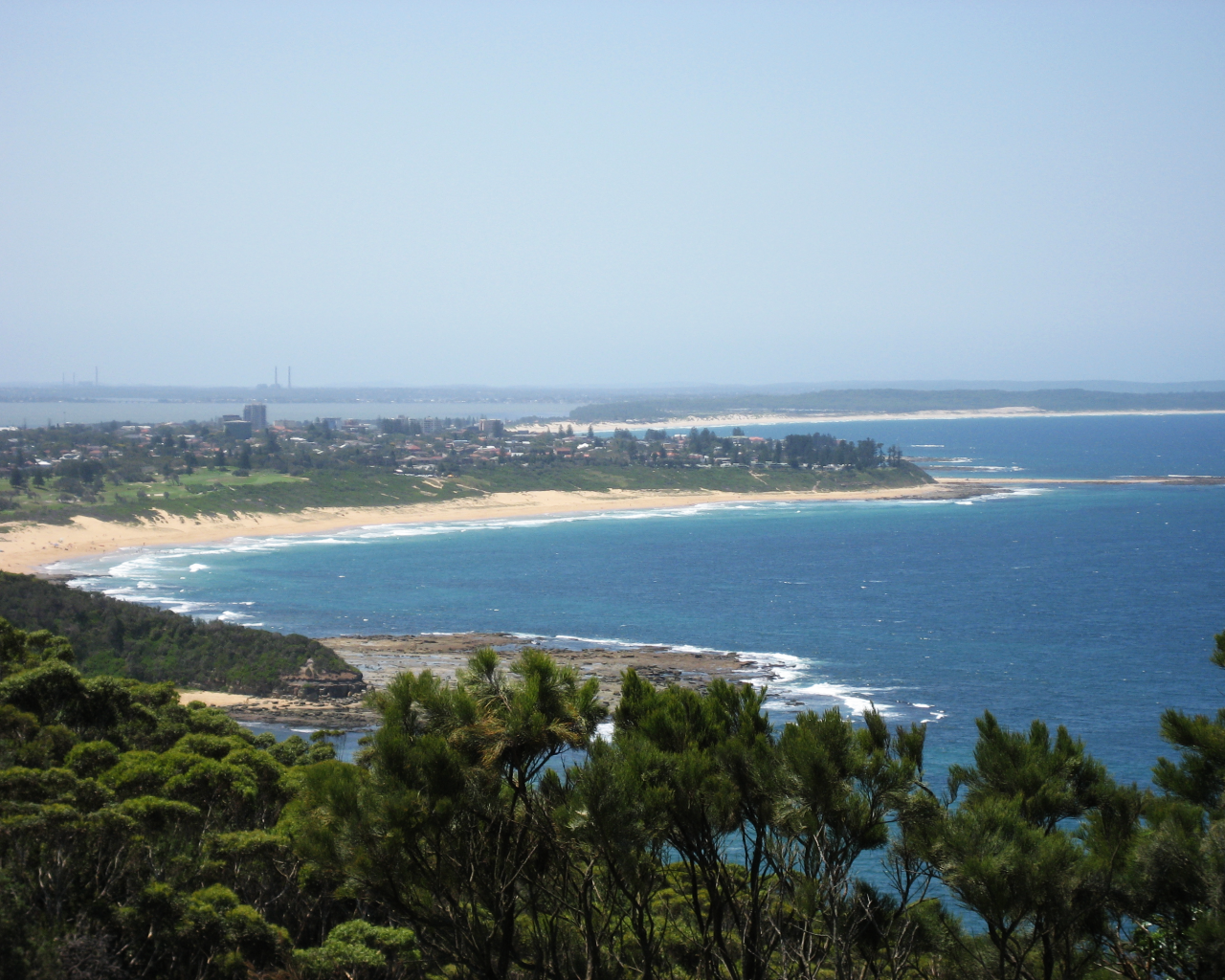 View from Crackneck lookout, Bateau Bay. Photo taken by the uploader.